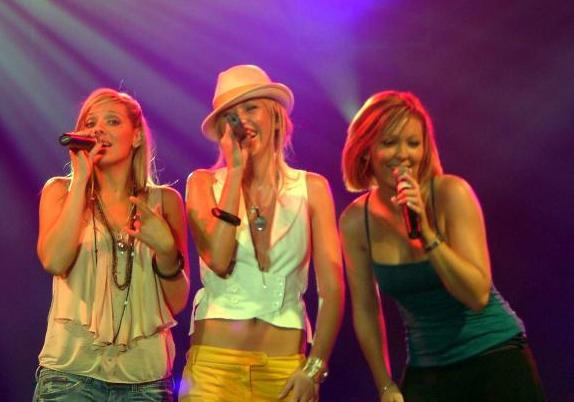 Group picture of Atomic Kitten during a concert in Poland in 2005. Left to right: Liz McClarnon, Jenny Frost and Natasha Hamilton.